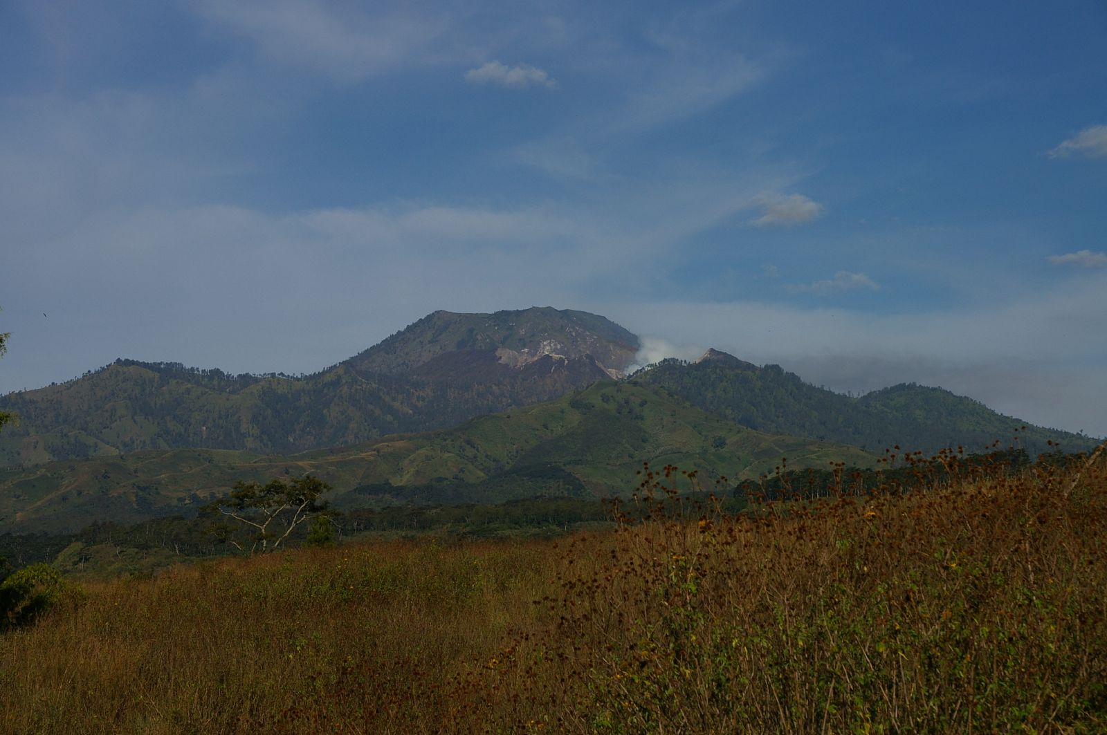 Merapi and Kawah Ijen from Ijen caldera, Java island, Indonesia